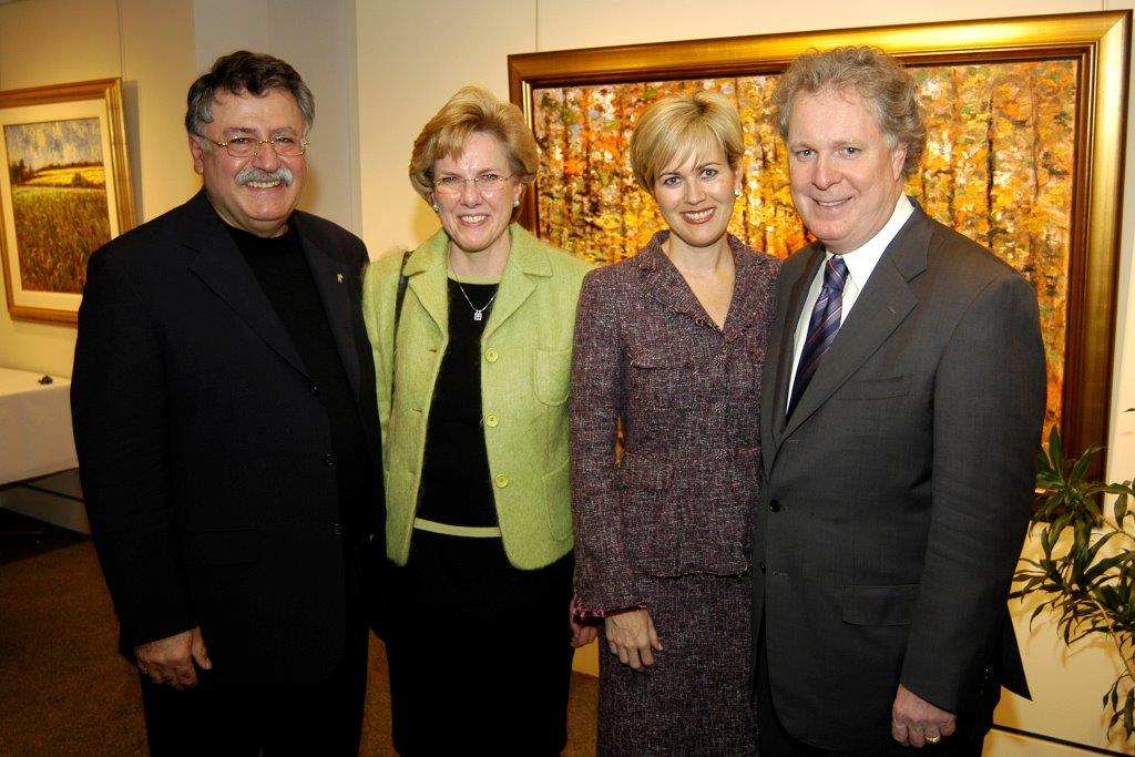 Samir Sammoun and Quebec Prime Minister Jean Charest and their wives at the 2005 Galerie d'Art Museum of Fine Art Exhibiton.